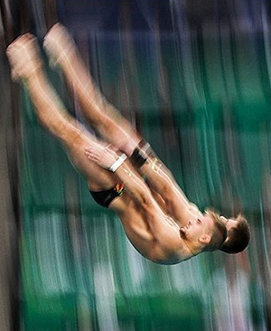 Diving at the 2016 Summer Olympics – Men's synchronized 10 metre platform – Ukrainian pair Maksym Dolgov and Oleksandr Gorshkovozov